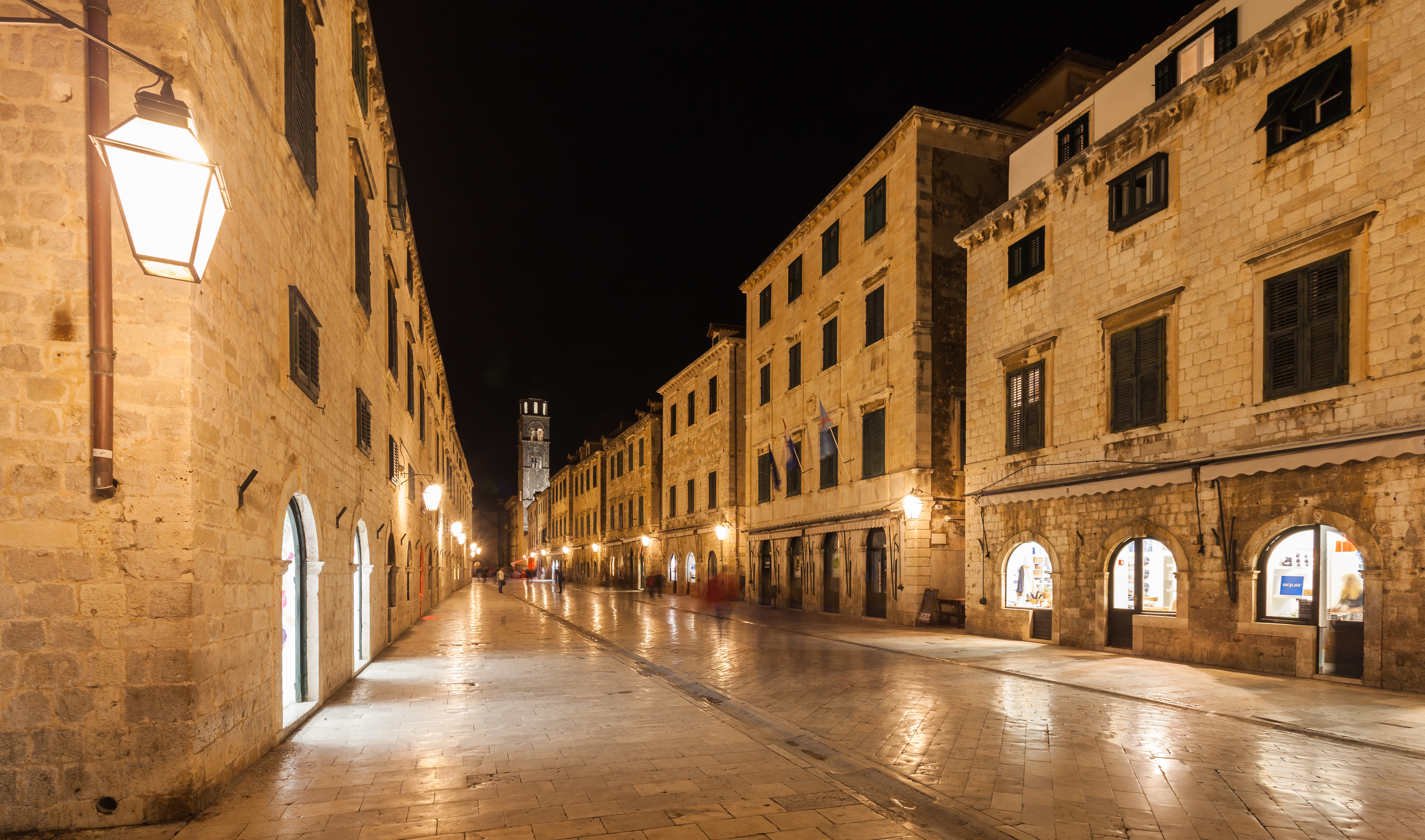 Stradun, old city of Dubrovnik, Croatia